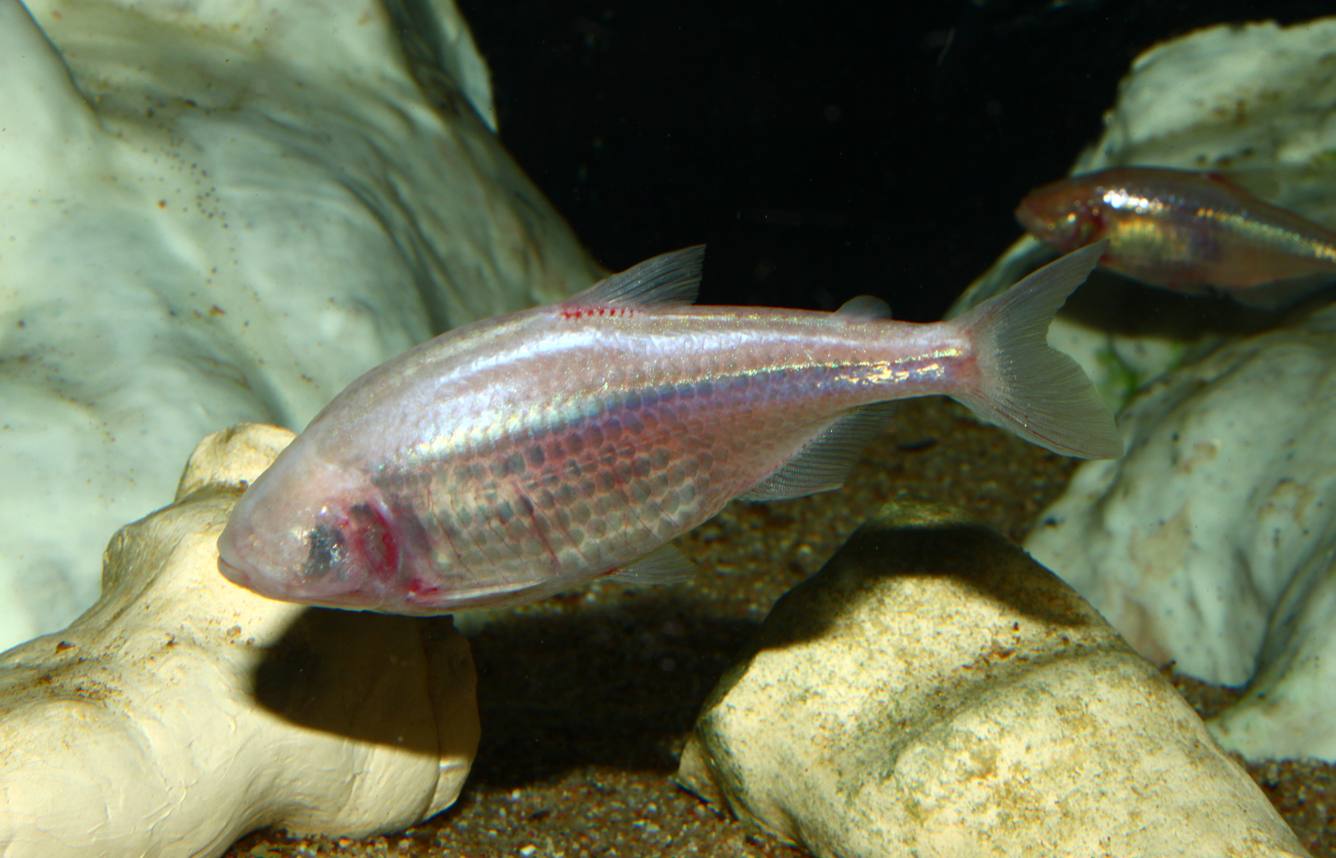 Astyanax mexicanus, Characidae, Blind Cave Tetra; Staatliches Museum für Naturkunde Karlsruhe, Germany.